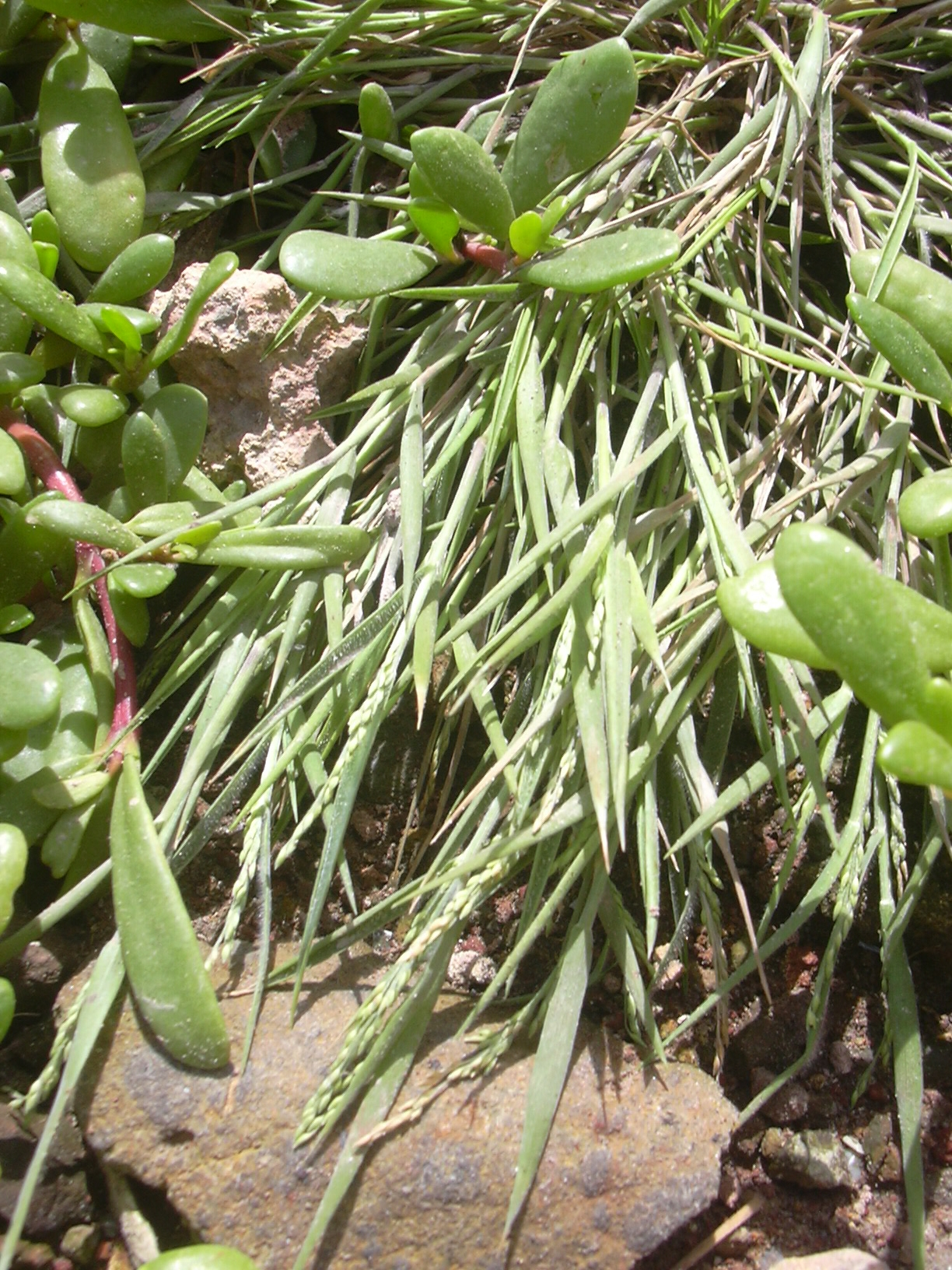 Panicum fauriei (habit). Location: Maui, Mokeehia